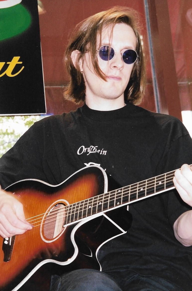 Steven Wilson performing with Porcupine Tree in 1999 at a record store in Chicago.